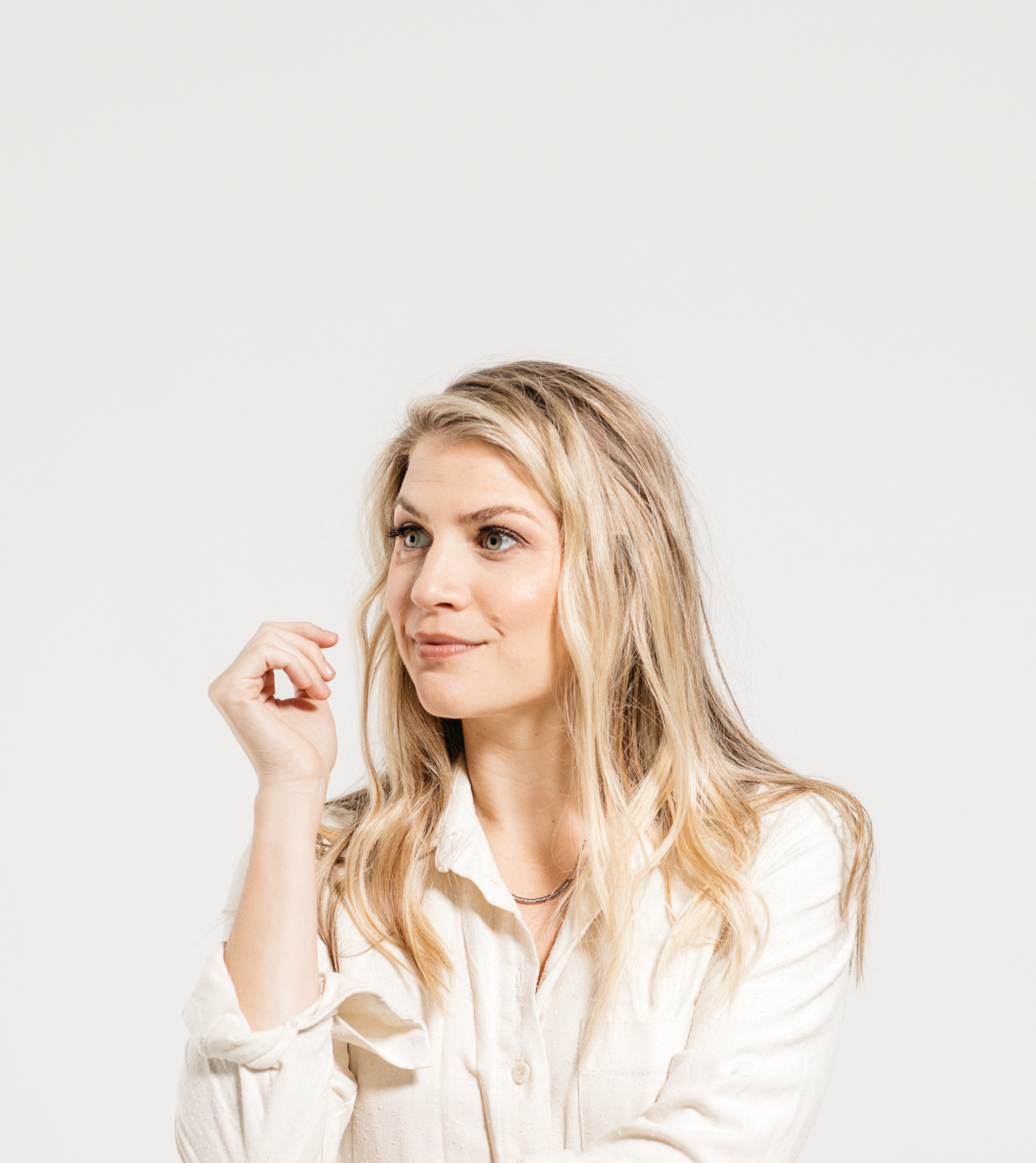 Jillian Edwards is pictured from a photoshoot in Nashville, Tennessee to prepare for her Meadow EP by Connor Dwyer.